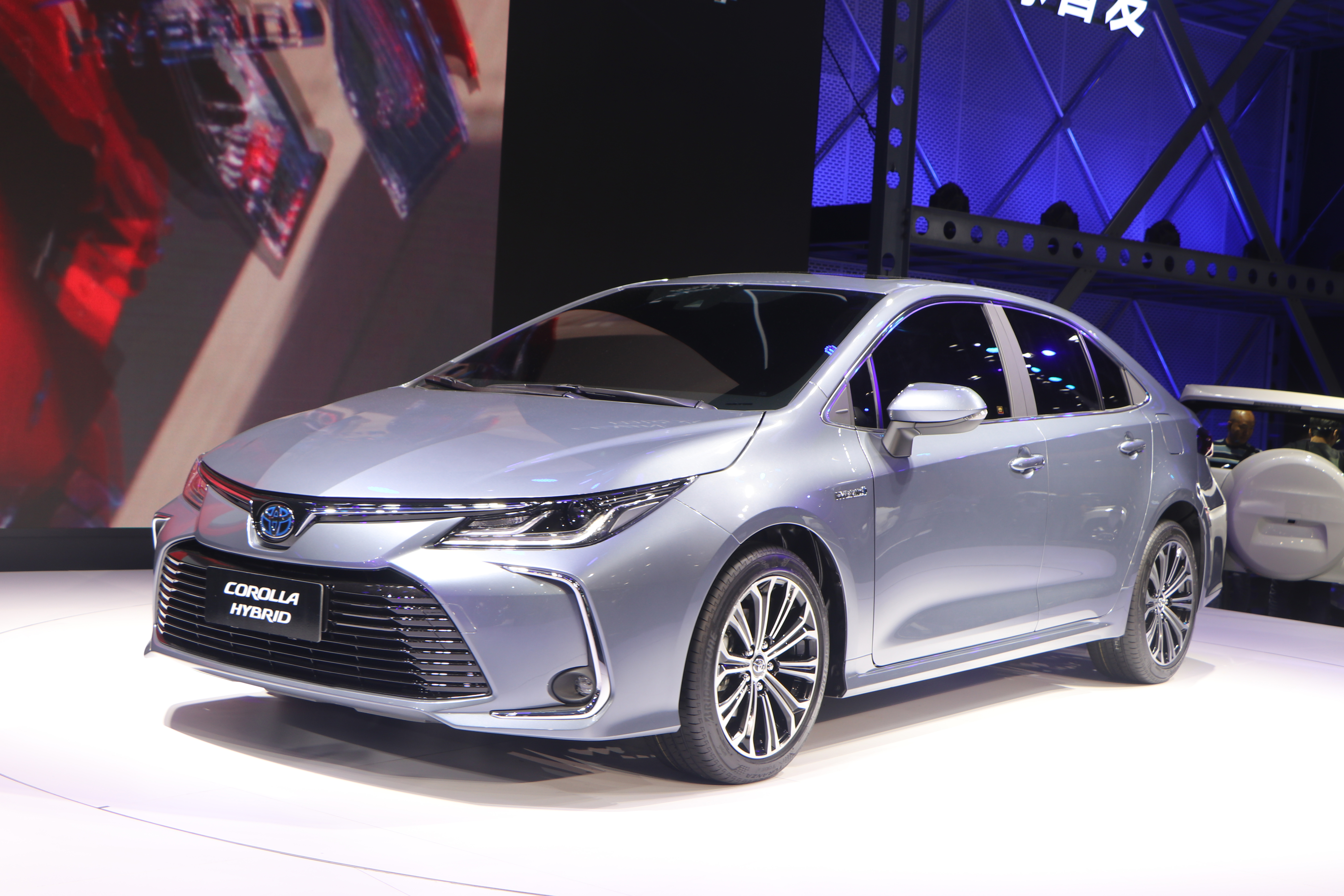 FAW-Toyota Corolla Hybrid E210